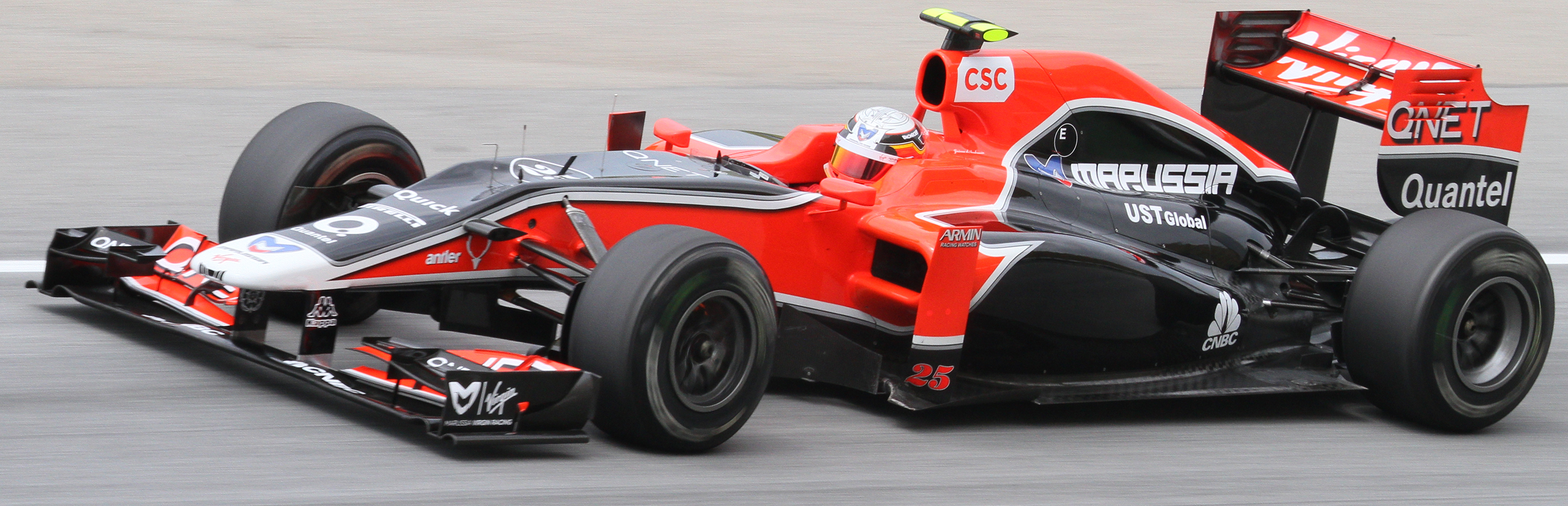 Formula One 2011 Rd.2 Malaysian GP: Jérôme d'Ambrosio (Virgin) during the first practice session on Friday.